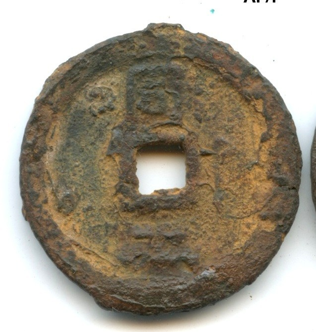 17.477 Jia Tai yuan bao IRON 2 Cash, ARBL, Rev. Li Yuan & 57 (only the 7 is visible) AF/Pr $ 13.50 17.482-485 Jia Tai tong bao 1201-04; Rev: Yr. 1, 2, 3, or 4. (your choice)+M1605 Jiangnan Mint. S835-838 (Yr. 1, 3 Vg-Vg+ Each $2.00); F-VF $ 4.50 17.490 Jia Tai tong bao IRON, Rev. Tong & 2. F/Vg+ $ 20.00 17.491 Jia Tai tong bao IRON, Rev. Tong & 3. AF/F $ 20.00 17.492-495 Jia Tai tong bao 2 Cash, Rev. Yr. 1, 2, 3, or 4 (your choice). Jiangnan Mint. Each year is a calligraphy variant, esp. writing of Tong. S839-842 Vg (rough) Each $2.00; F-F+ $ 6.00 17.497 Jia Tai tong bao IRON 2 Cash, Rev. Chun & 1. F/AF $ 22.50 17.498 Jia Tai tong bao IRON 2 Cash, Rev. Chun & 2. S848 VF/AVF $30.00; VF+/VF $ 40.00 17.499 Jia Tai tong bao IRON 2 Cash, Rev. Chun & 3. F+/AVF $27.50; VF/VF $35.00; VF+/VF+ $ 40.00 17.502 Jia Tai tong bao IRON 2 Cash, Rev. Han & 3. S851 SAMPLES shown: VF+ $ 32.50 17.503 Jia Tai tong bao IRON 2 Cash, Rev. Tong & 1. AF/F $20.00; VF $ 30.00 17.504 Jia Tai tong bao IRON 2 Cash, Rev. Tong & 2. S847 AF/F $15.00; F+/F+ $20.00; VF/VF $ 27.50 17.508-510 Jia Tai tong bao 1205-07; Rev. Yr. 1, 2, or 3. (your choice) Jiangnan Mint. S857-859 (Yr. 3 Vg-weak rev. $2.00; Yr. 2 VF $10.00); AF-F $ 5.50 17.517-518 Jia Tai tong bao 2 Cash, Rev. Yr. 1, 2, or 3. (your choice) Slightly different calligraphy each year. Each: S860-61 (17.519 only G $1.50, Vg $3.00); F-F+ $ 8.50.